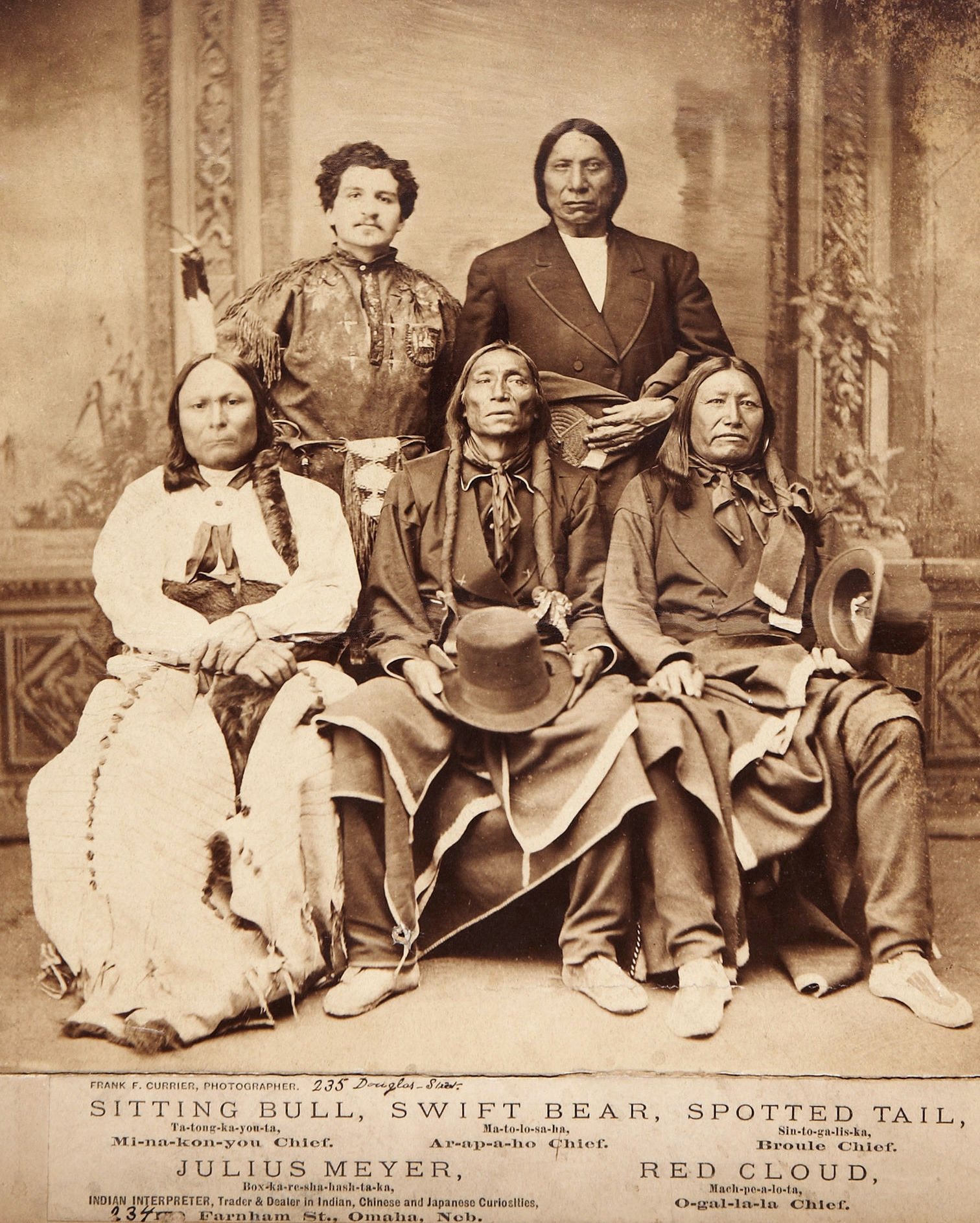 "Young" Sitting Bull of the Oglallas (not the more famous Hunkpapa of the same name), Red Cloud, Swift Bear, and Spotted Tail in Omaha, Nebraska, en route to Washington DC to meet with President Ulysses S. Grant to discuss the Black Hills.